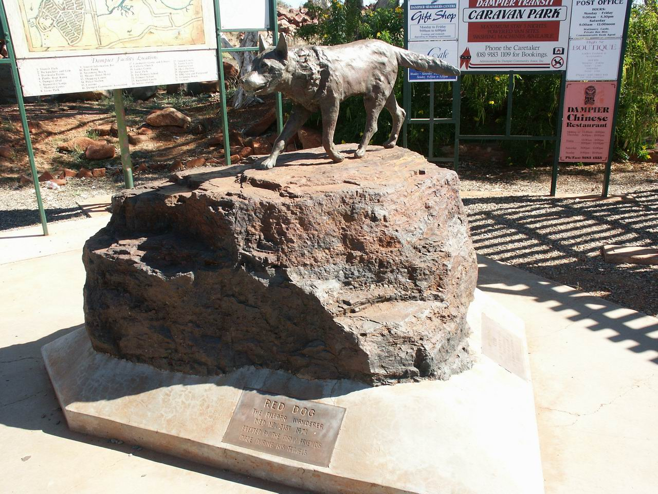 Dampier, Western Australia "red dog" statue.